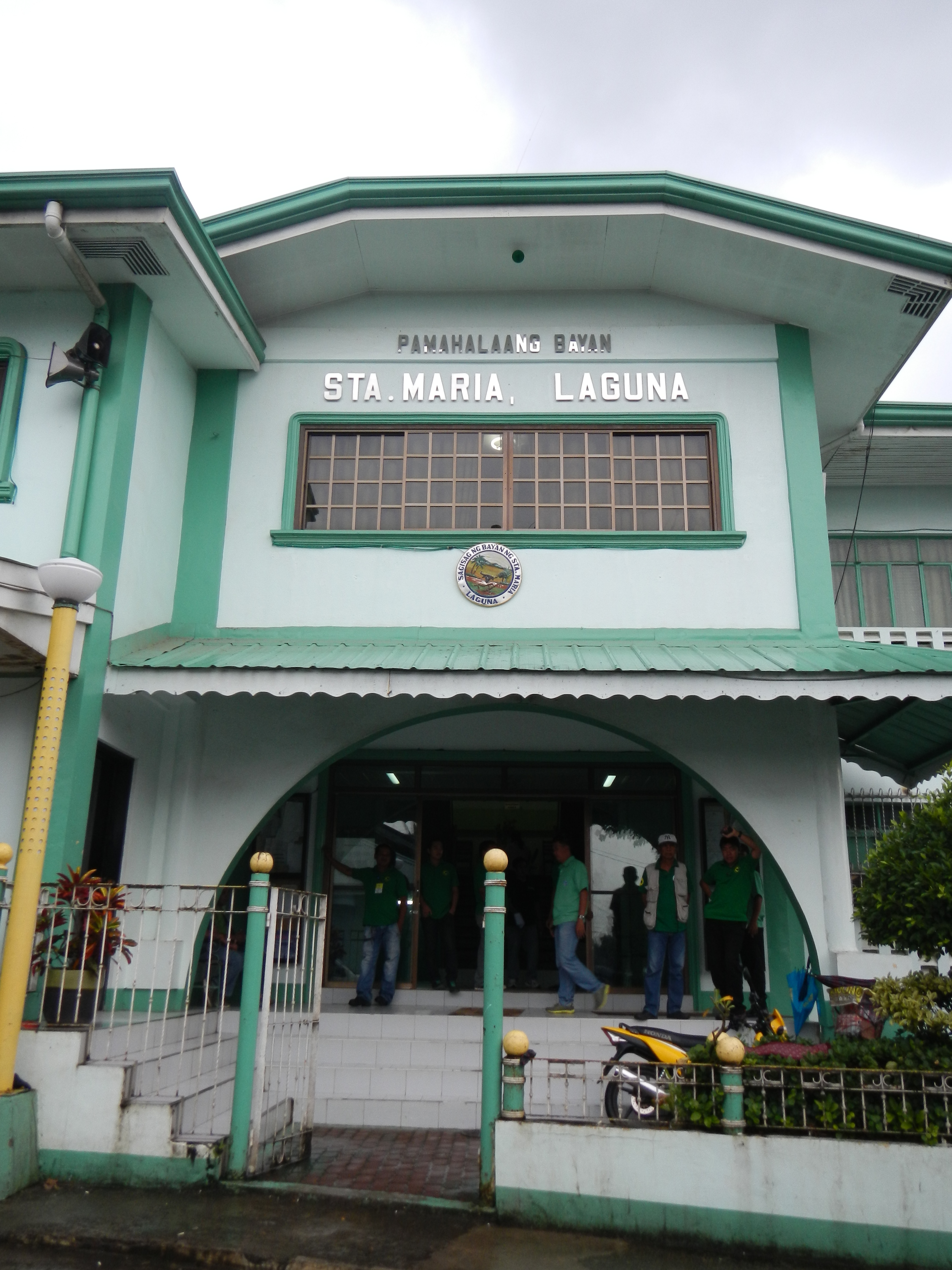 UploadWizard photos -- (General description, 3-dimension angle by angle photography of this town, church & landmarks) -- Santa Maria, Laguna Town Hall, the River of under the Inayapan bridge ansd downtown center of the commercial centers of the tow, Tanghalang Gob. Jose D. Lina, Plaza, Basketball court, Centro, Commercial buildings, town centre, downtown -- of Santa Maria, Laguna [1] (a fourth class municipality in the province of Laguna,[2] Philippines, land area of 126 km2 [3] Coordinates: 14°30'35"N 121°25'51"E[4]) and the --- 1613 Nuestra Señora delos Angeles Parish Church of Santa Maria, Santa María de los Ángeles - Our Lady of the Angels Parish Church, Parokya ng Nuestra Señora de los Angeles, The Church of Santa Maria, Laguna -- belongs to the Roman Catholic Diocese of San Pablo[5] - Vicariate of Saints Peter and Paul Episcopal District IV [6] [7].